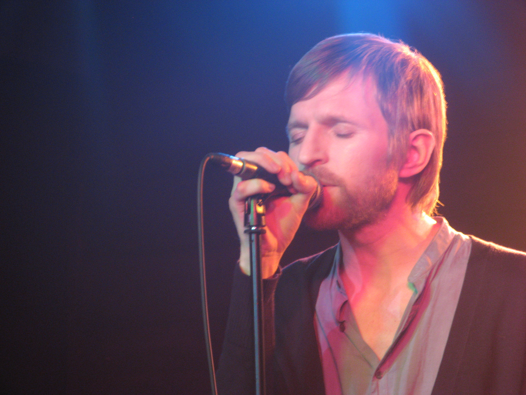 Jay-Jay Johanson, Moby Dick, Madrid